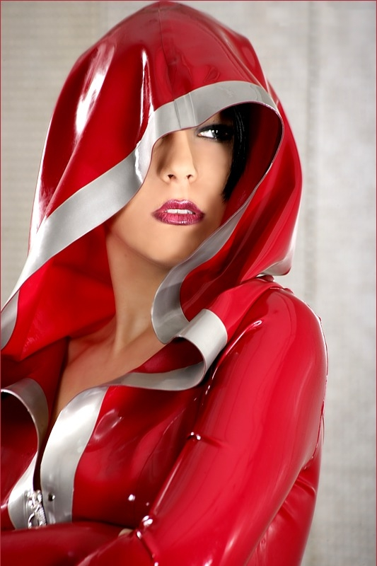 Photomodel wearing rubber / latex outfit